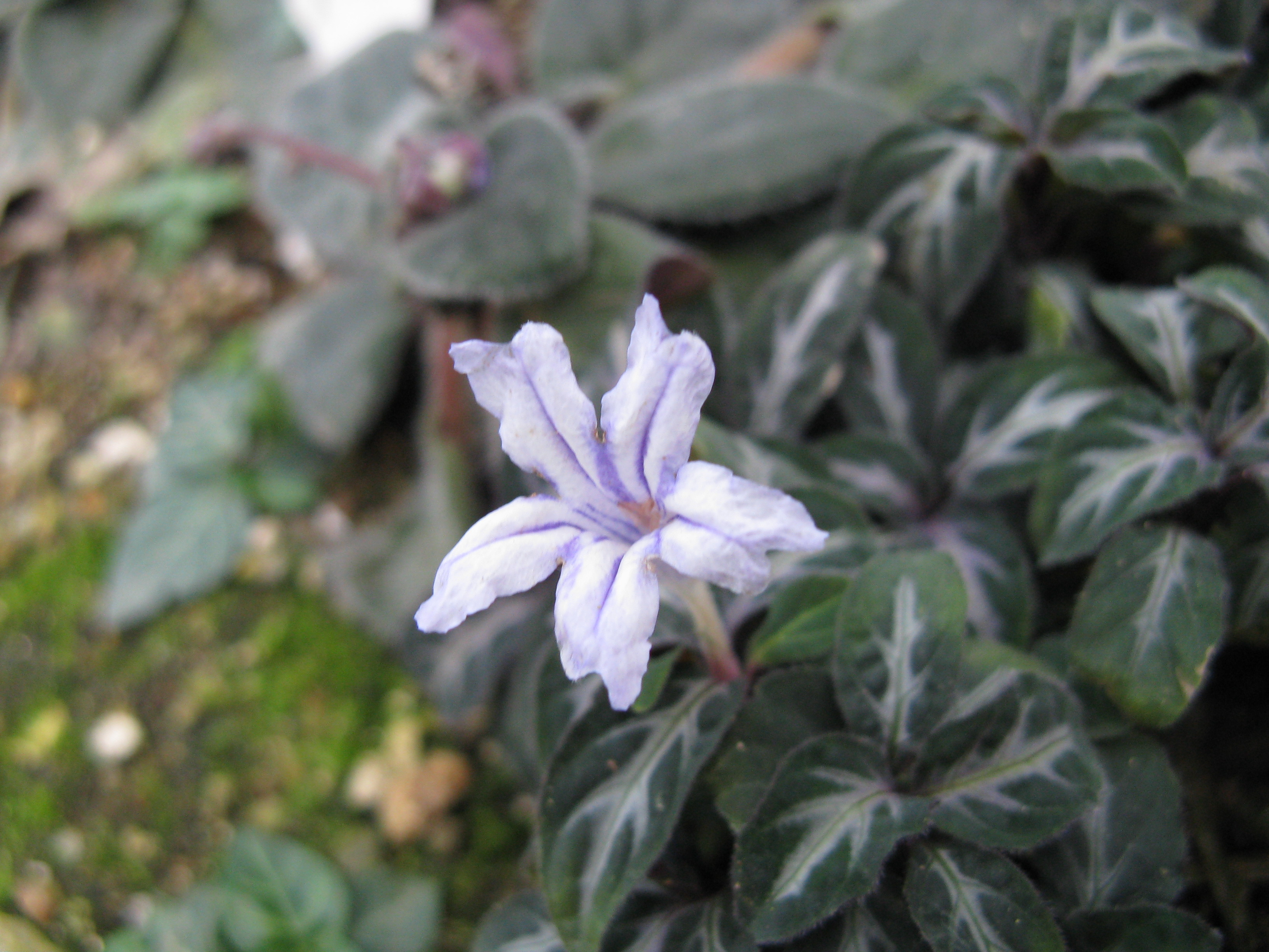 Ruellia devosiana Place:Osaka Prefectural Flower Garden,Osaka,Japan